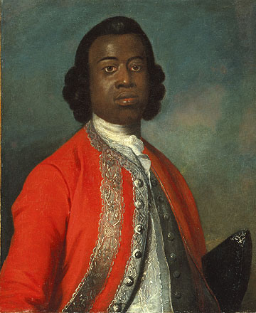 Portrait of William Ansah Sessarakoo, son of Eno Baisie Kurentsi (John Currantee) of Anomabu (fl. 1736-1749) Oil on canvas, 26 1/4 × 21 7/8 in. (66.7 × 55.6 cm)